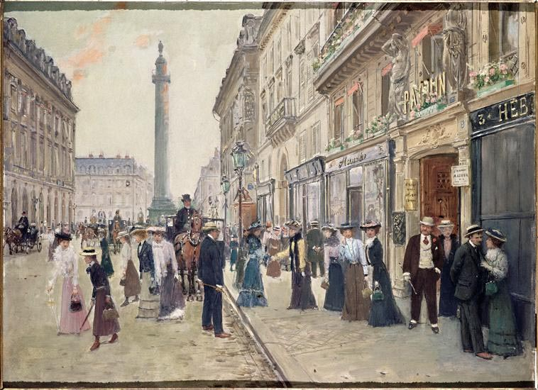 La rue de la Paix [no 3], Paris. 1907.